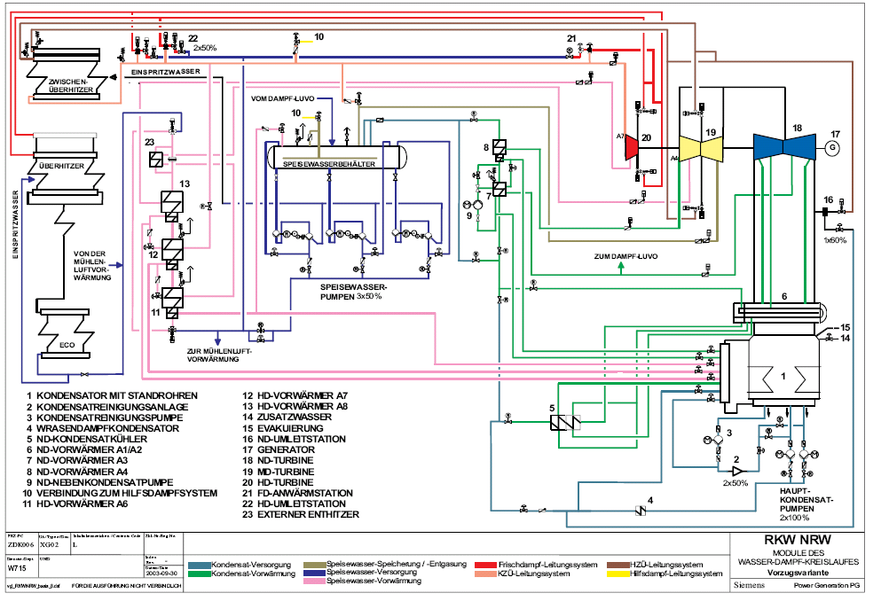 Water flow diagram of a steam cycle power plant